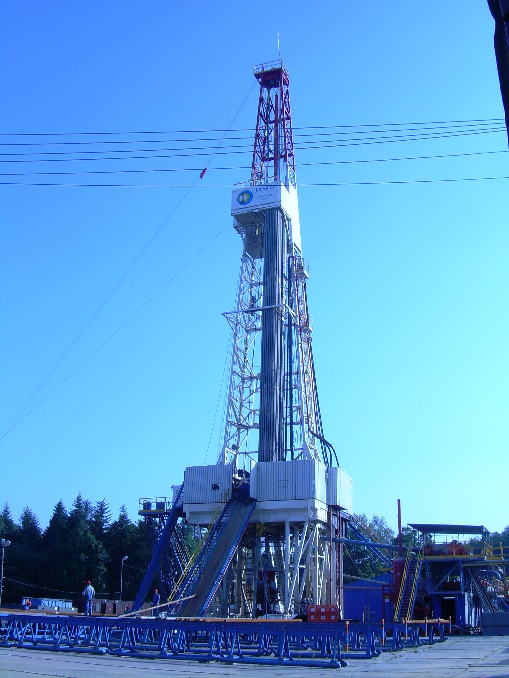 National 110 UE rig working in Podkarpacie region